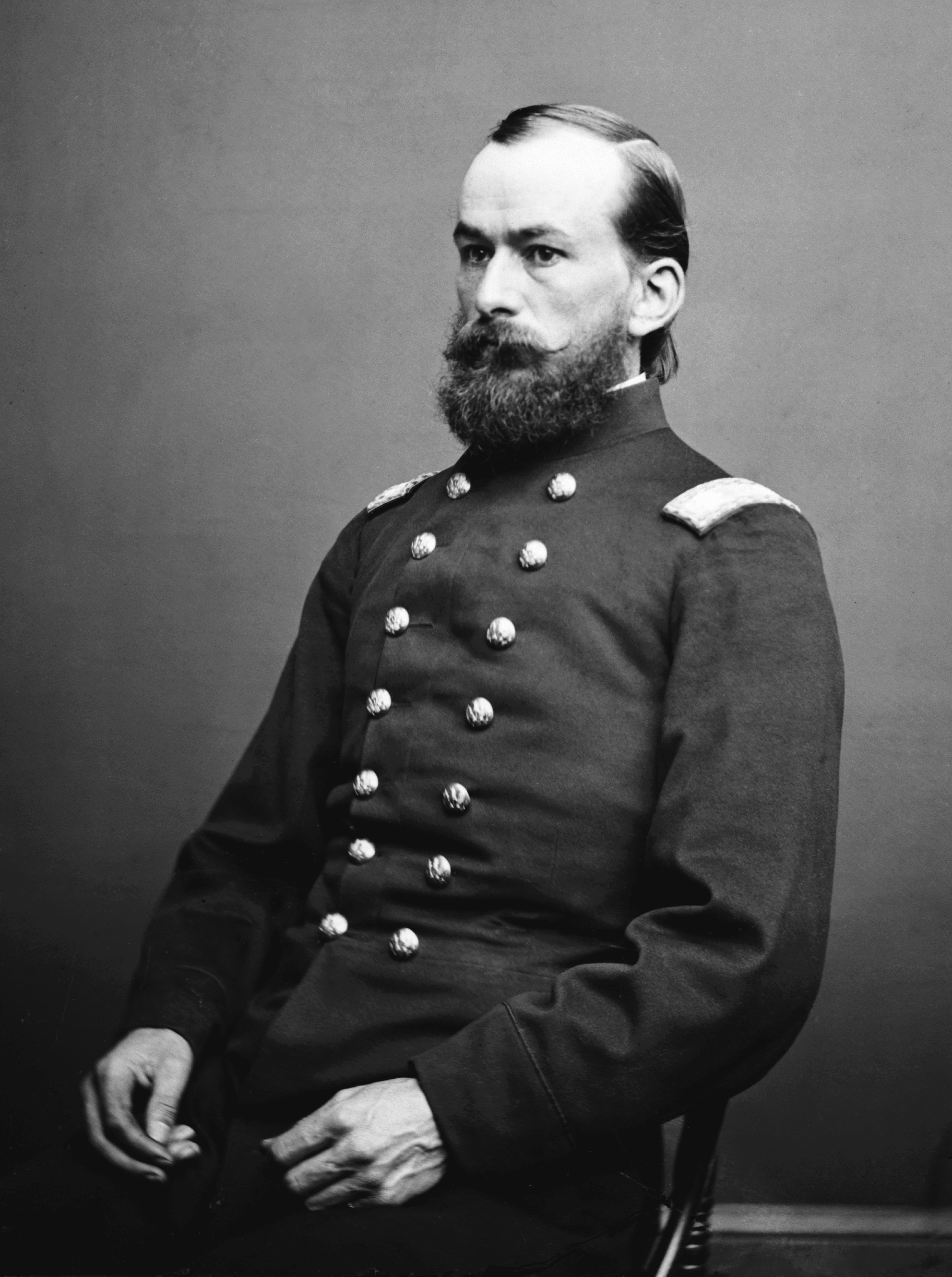 Asa Peabody Blunt (1826–1889) was a draughtsman and a general in the Union Army during the American Civil War. The title of this photo is "Col. Asa P. Blunt 6th Vt. Inf." indicating it was probably taken in 1862 as he was promoted to Colonel of the 12th Vermont Infantry Regiment in that year, after commanding the 6th Vermont Infantry Regiment in 1861.